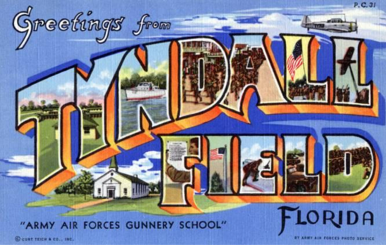 Army Air Forces - Postcard - Tyndall Field Florida